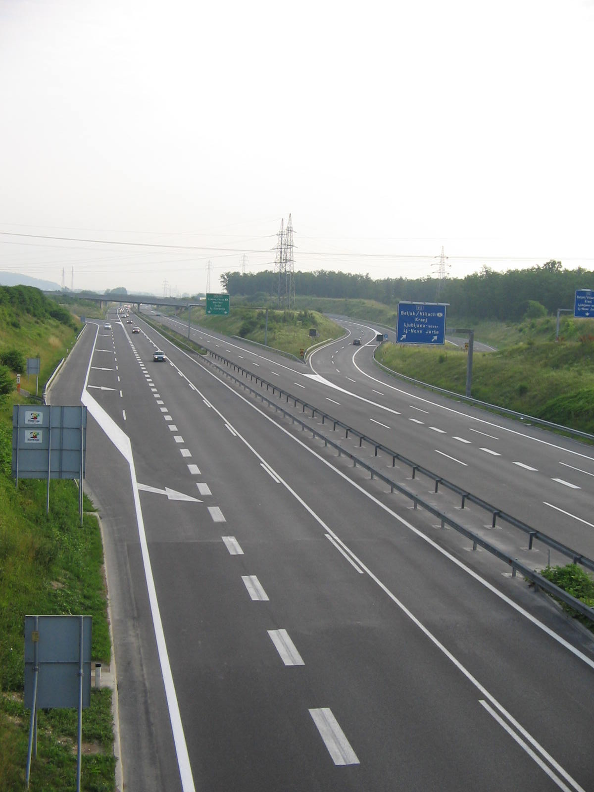 Road interchange